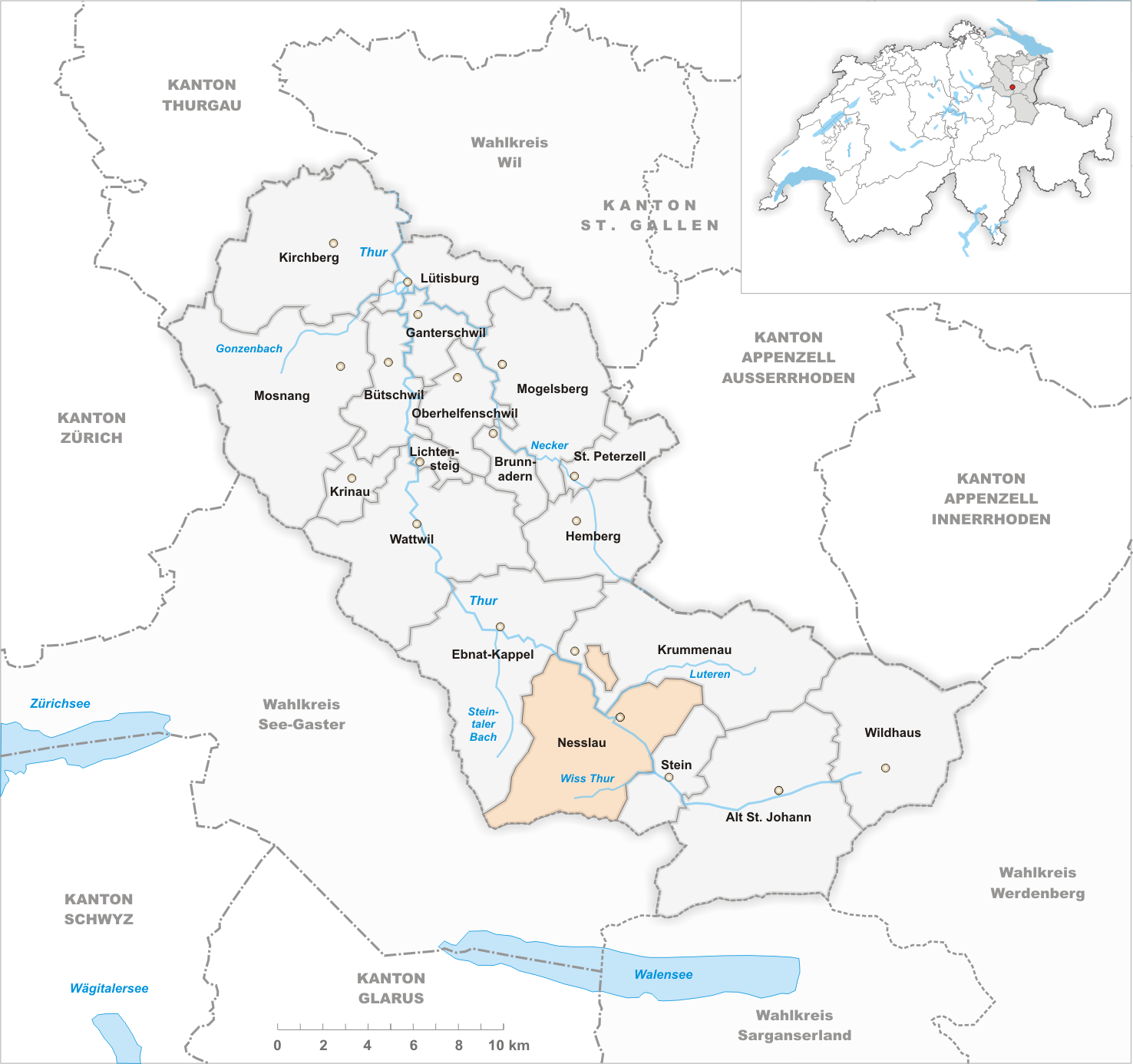 Municipality Nesslau Artist: Tschubby